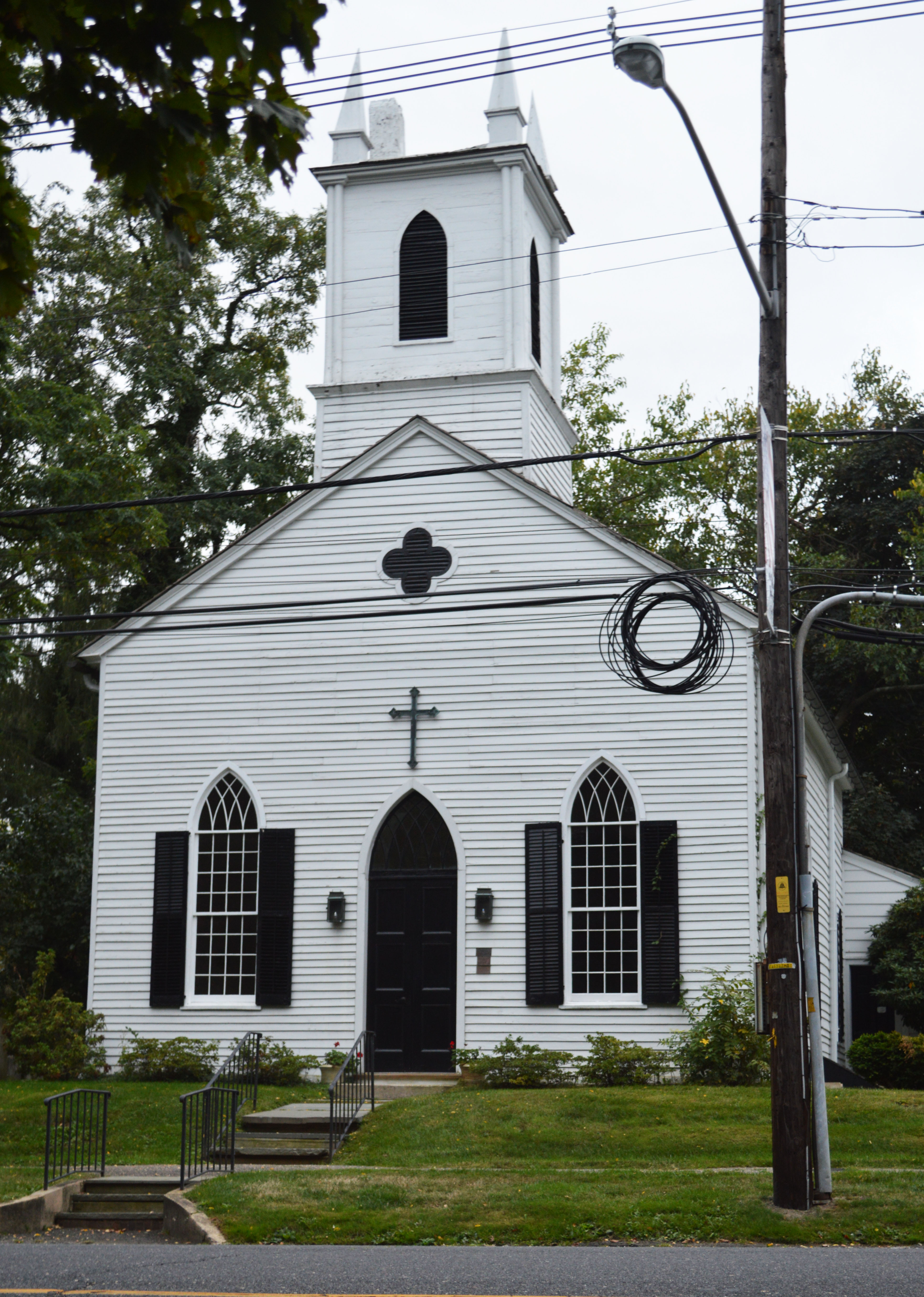 Middletown Village Historic District